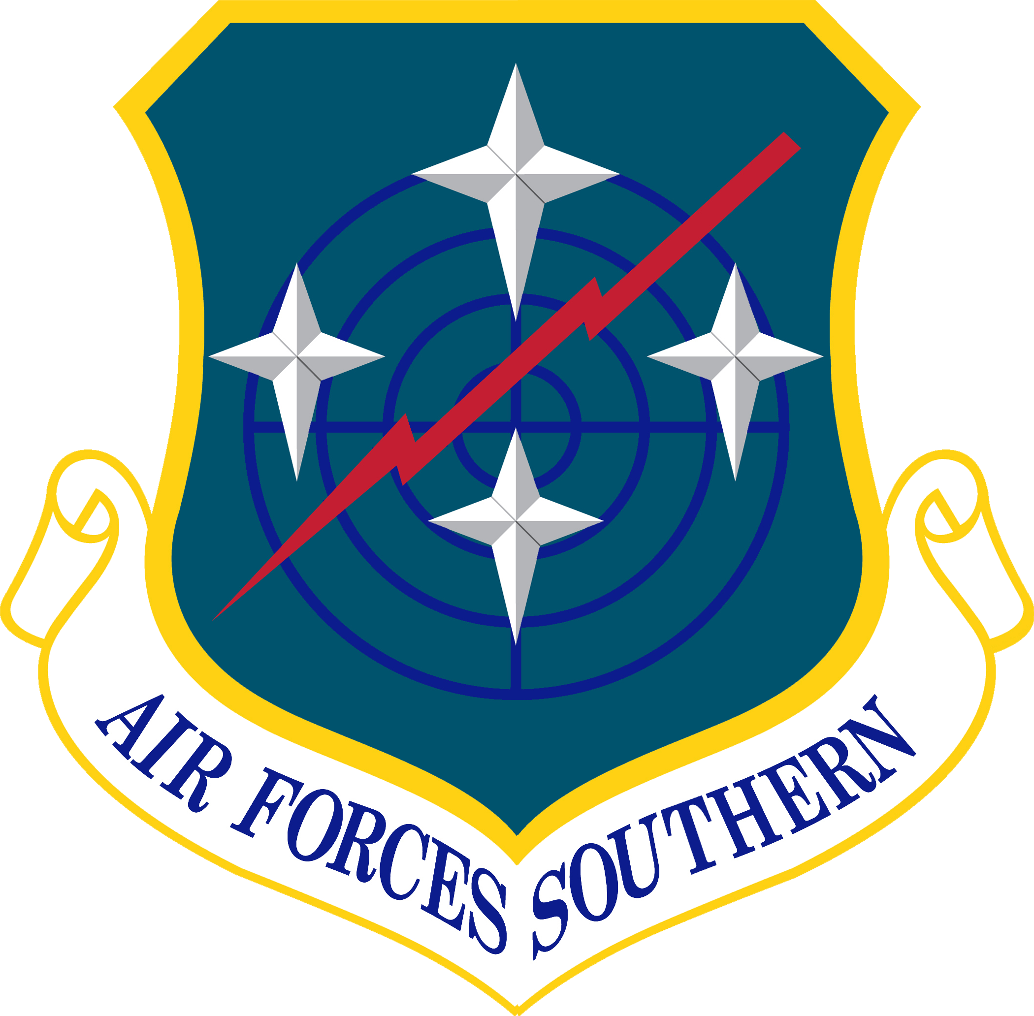 United States Air Force Southern Command emblem.